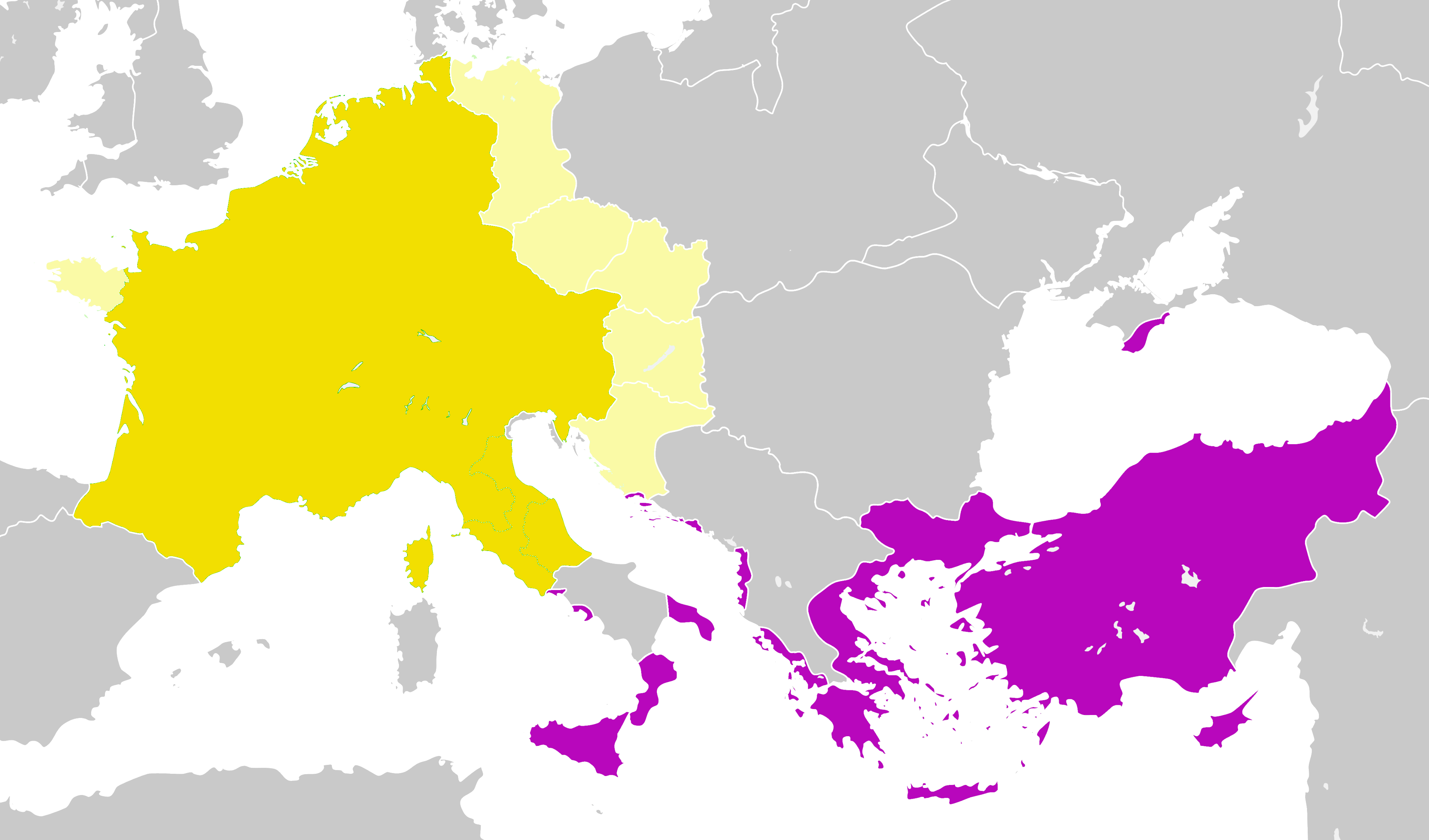 The Carolingian Empire and the Byzantine Empire in 814 AD